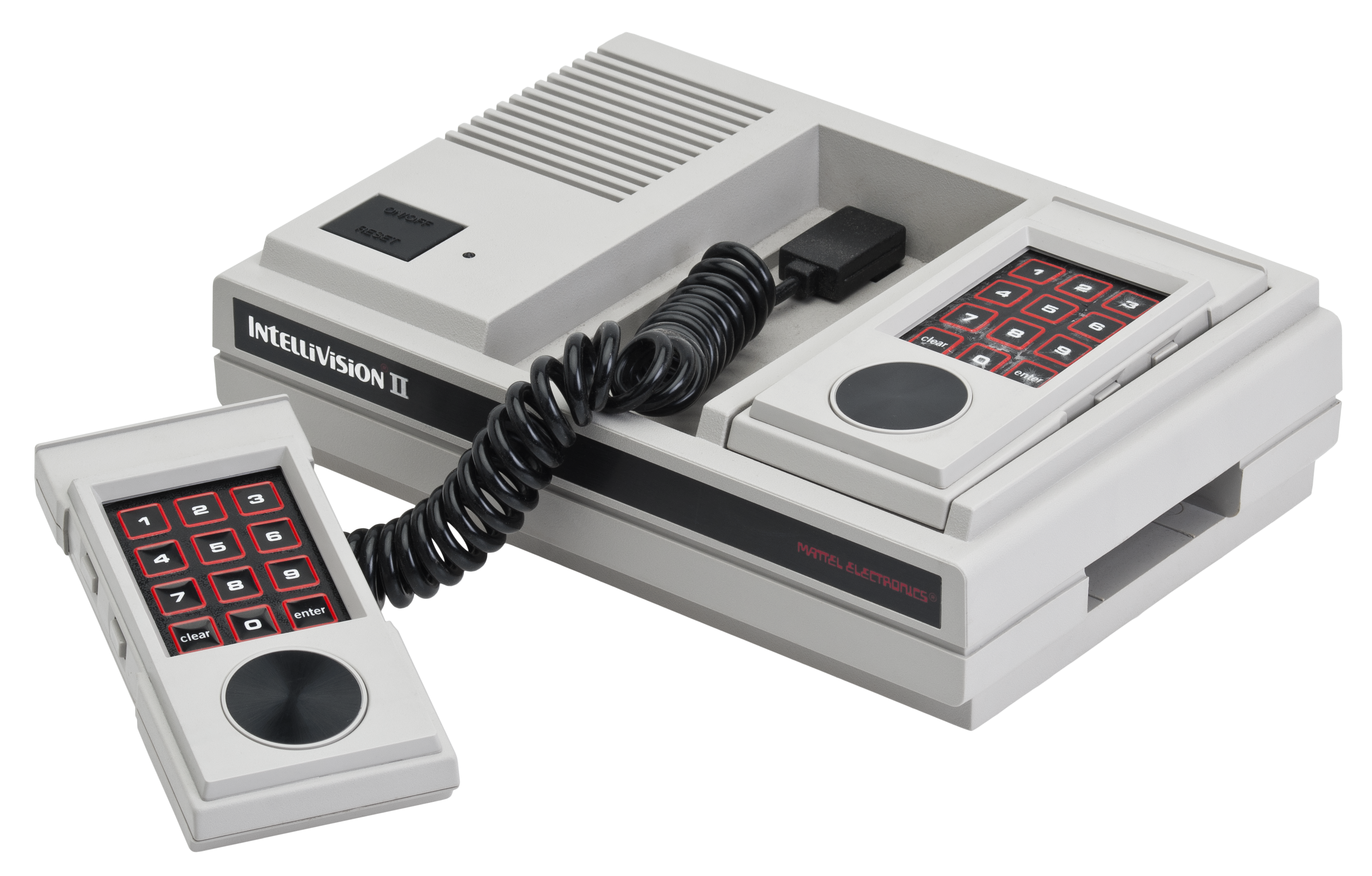 The Intellivision II video game console. This scaled-down redesign of the Intellivision was released in 1983.